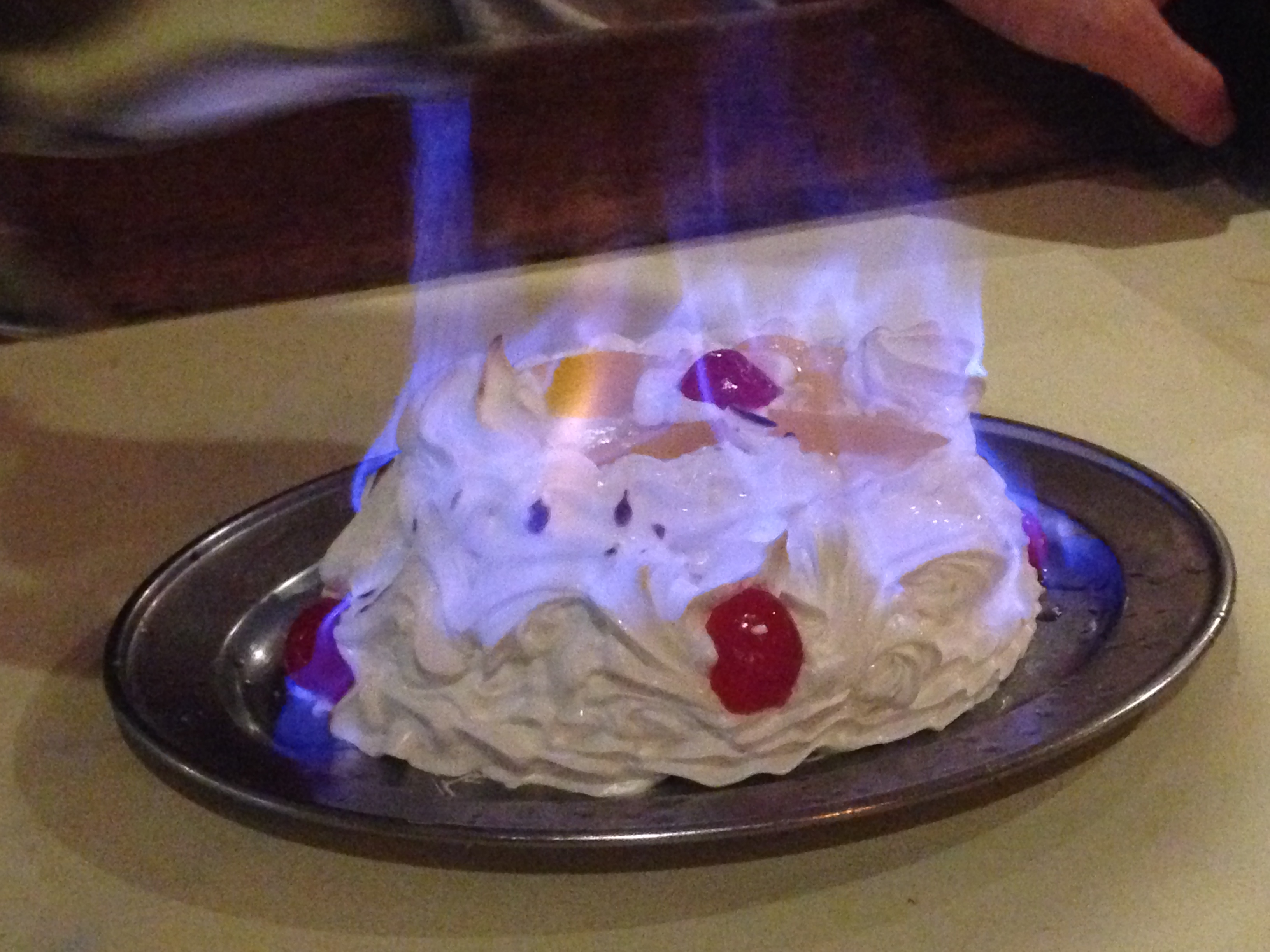 A Bombe Alaska at Shashlik Restaurant, Singapore.